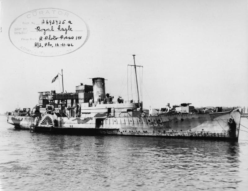 Photograph of paddle steamer, auxiliary anti-aircraft ship HMS Royal Eagle.